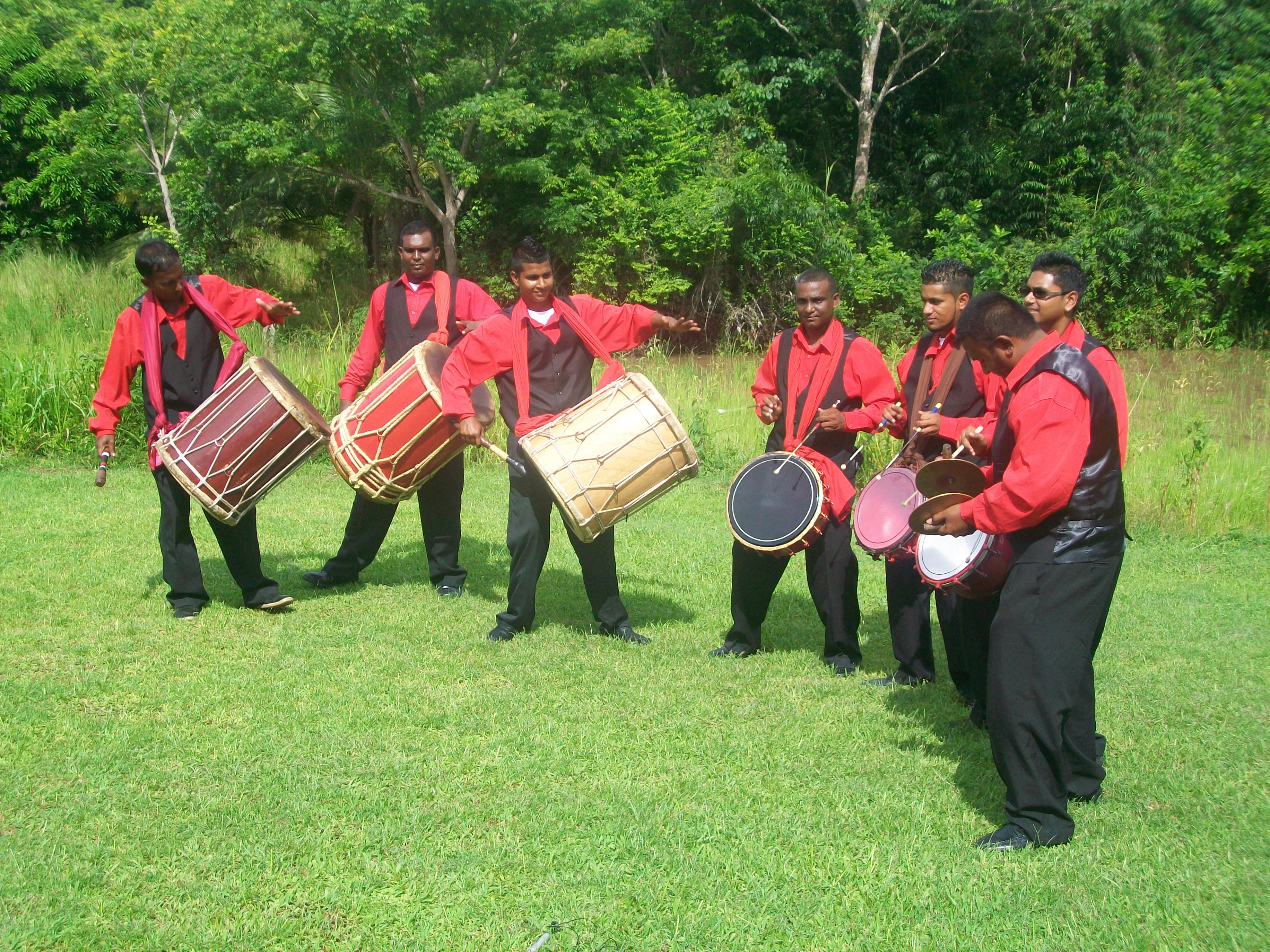 The tassa band Trinidad and Tobago Sweet Tassa, founded and directed by Lenny Kumar (center). The photo includes three bass players (left), three tassa players (center), and one jhal player (right).